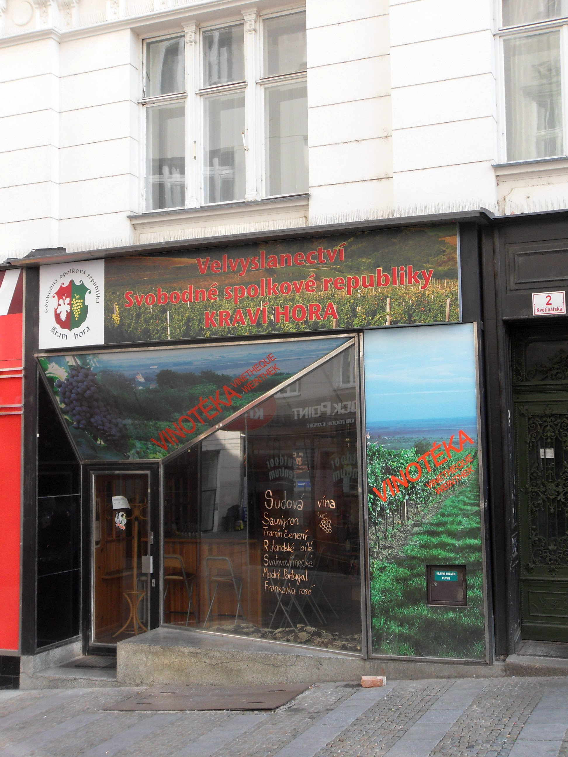 Wine shop and embassy of Free federal republic of Kraví hora, Brno, Czech Republic - Google Maps - Google Earth